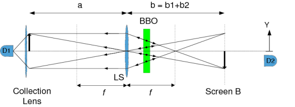 Created by Tabish. Modified from Kim and Shih's paper.